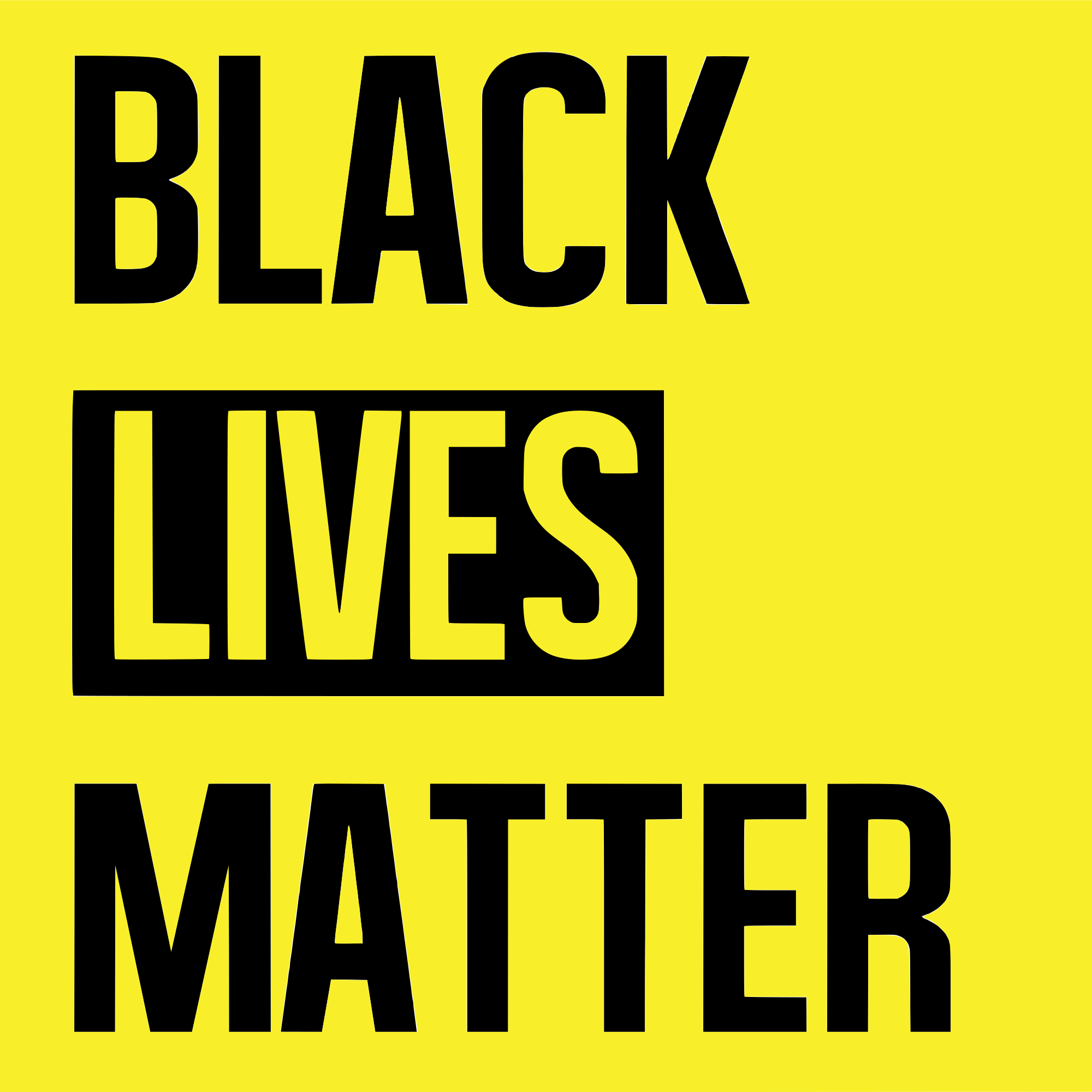 Common social media logo/profile/avatar for the formal Black Lives Matter organization